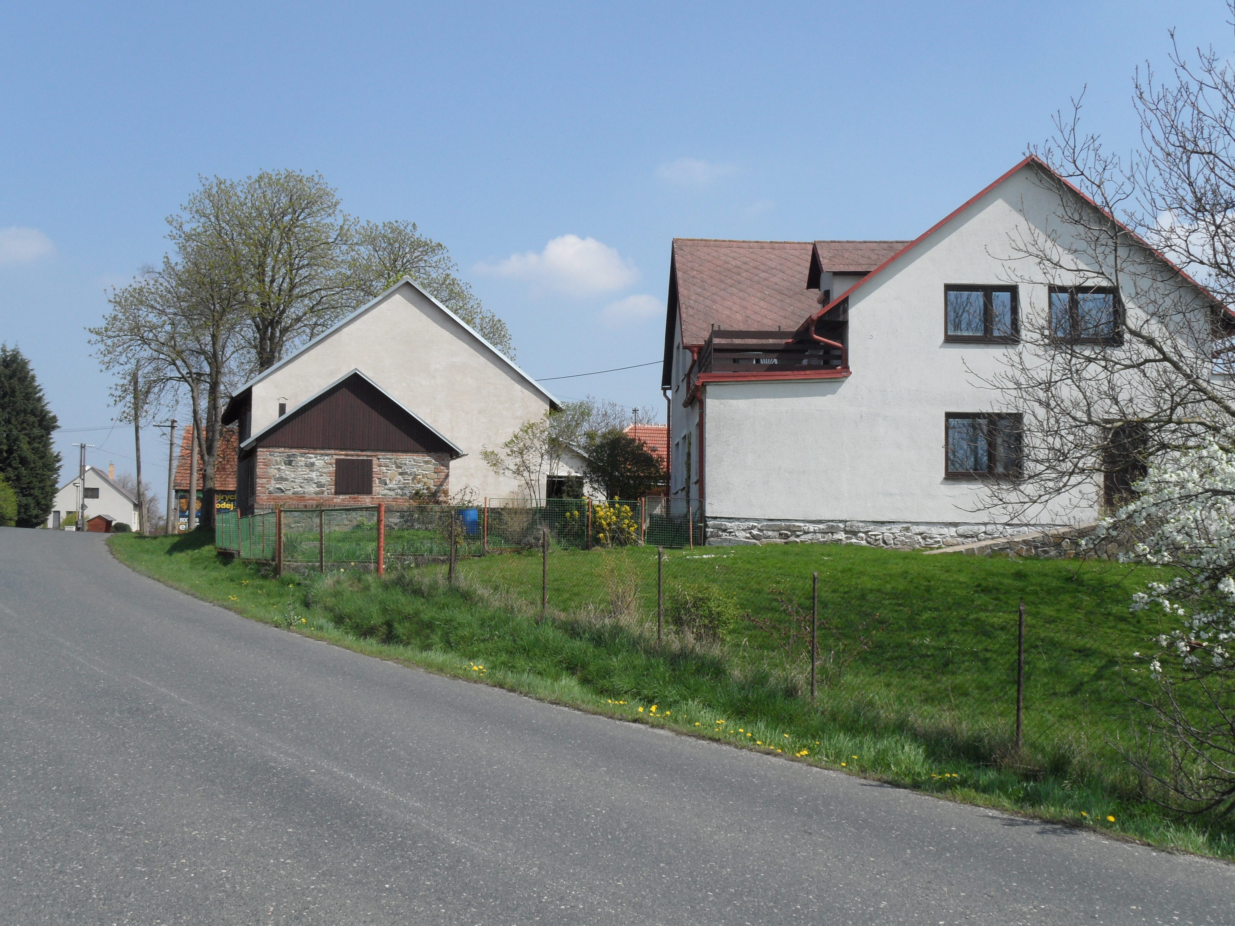 Lány (Červené Janovice) A. Houses along Main Road (Direction from Červené Janovice), Kutná Hora District, the Czech Republic.